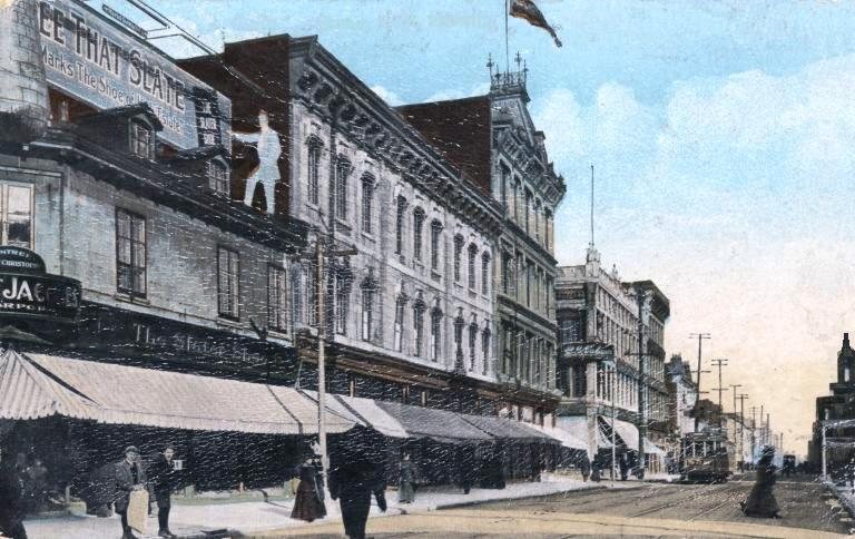 Print (photomechanical), Dupuis Frères Dept. Store, St. Catherine Street East, Montreal, QC, about 1910, Coloured ink on paper mounted on card - Photolithography - 8.7 x 13.7 cm